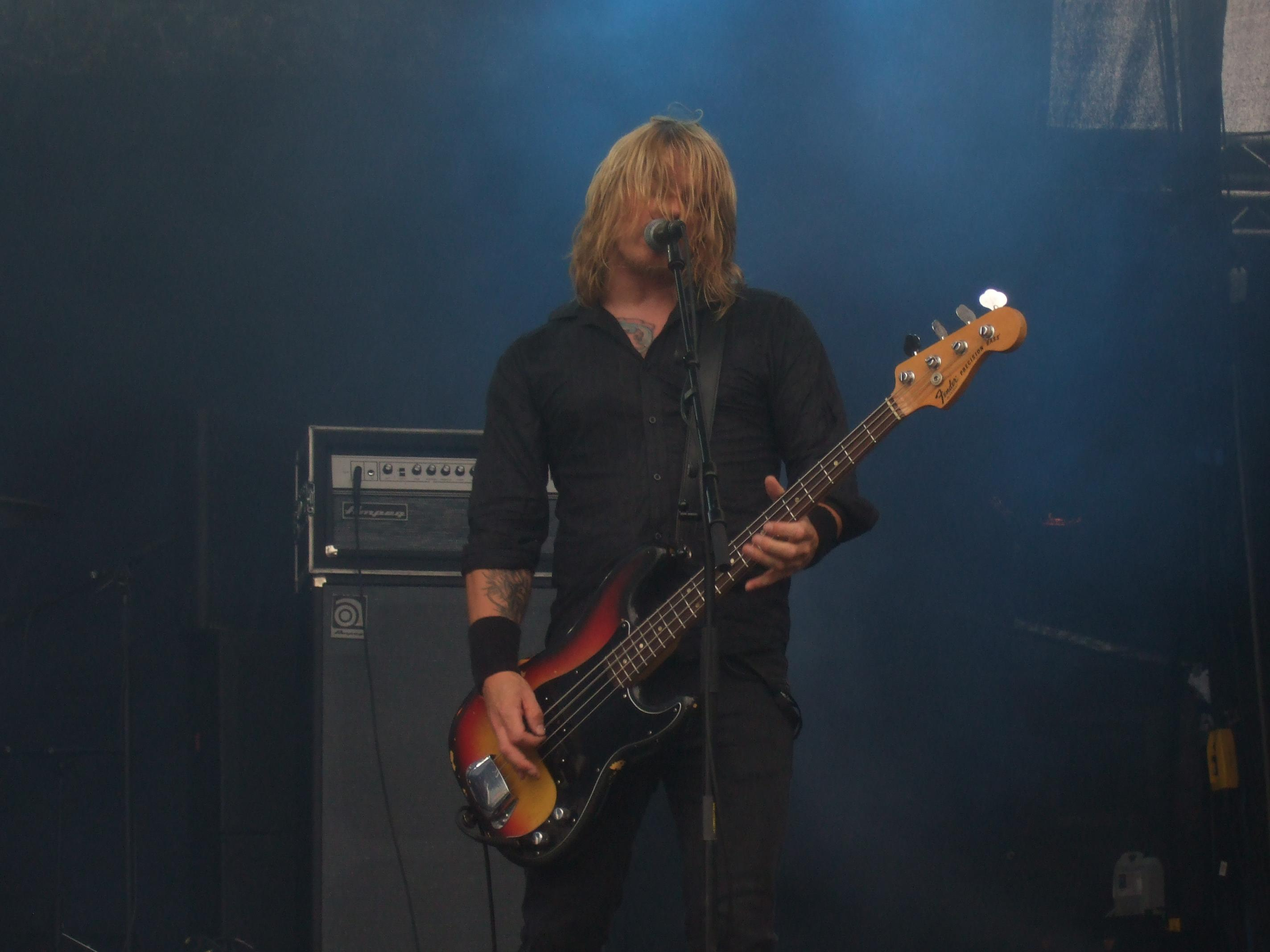 El Caco at the park festival in Bodø 2007